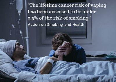 The cancer risk from vaping is 0.5% of the risk from smoking